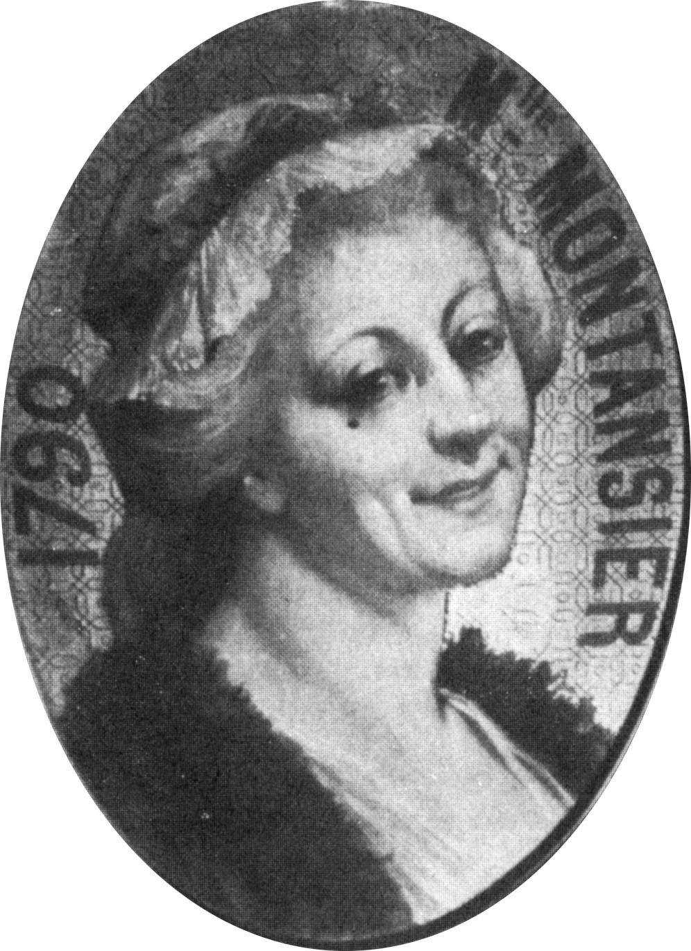 Mademoiselle Montansier (1730–1820), a French actress and theatre entrepreneur